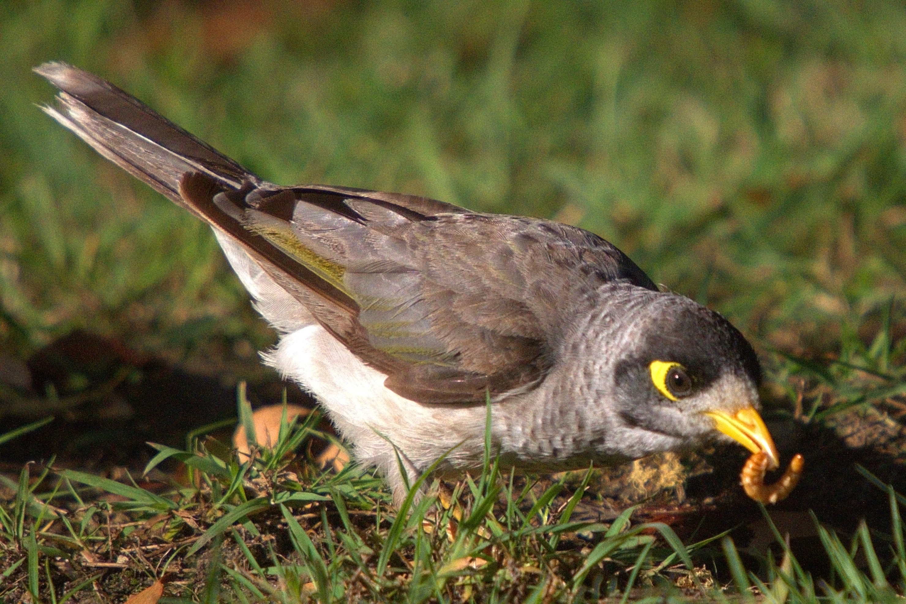 An immature Noisy Miner with a mealworm, Toukley, New South Wales